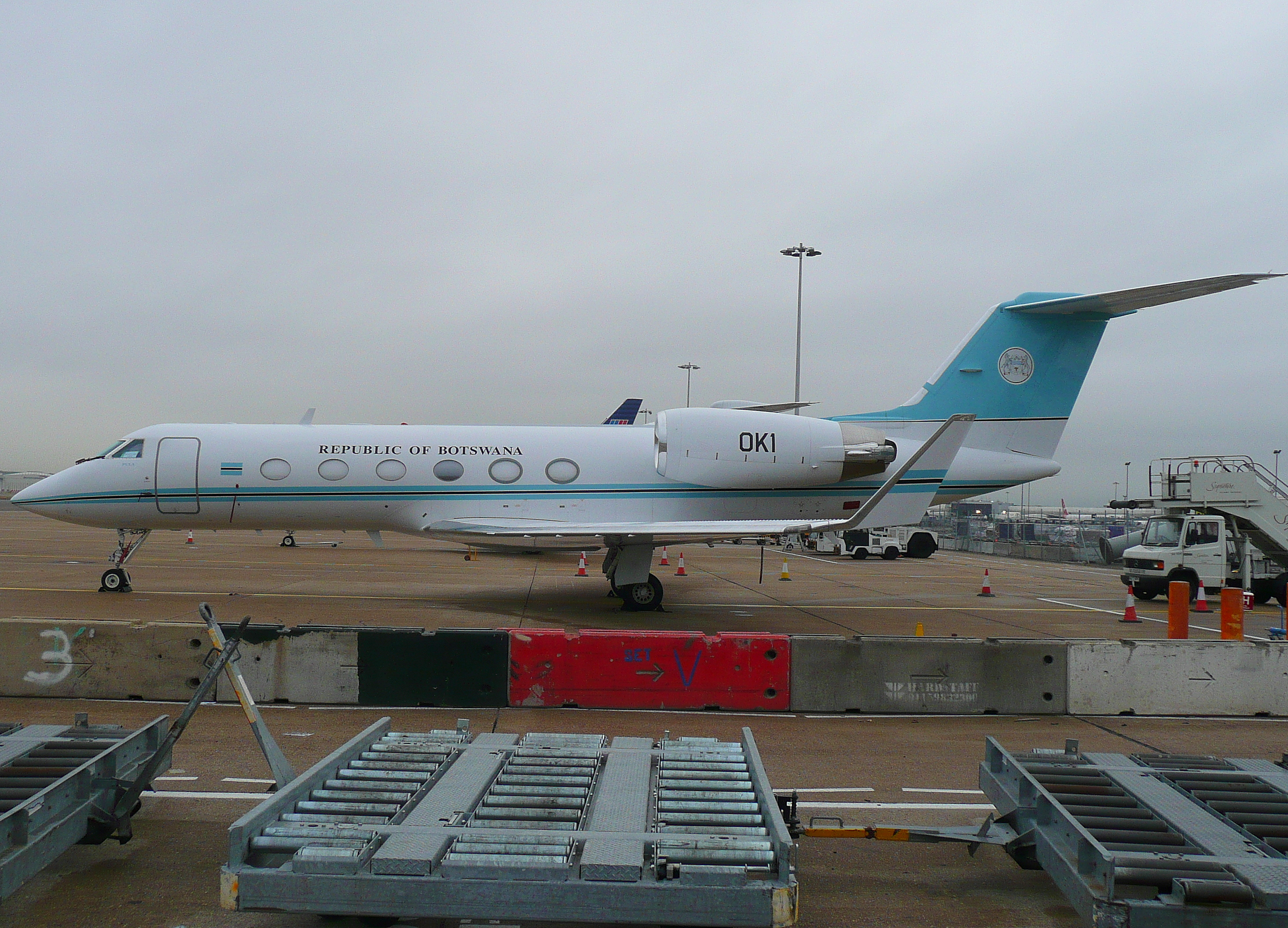 OK1 Gulfstream IV Botswana Defence Force on std 605.